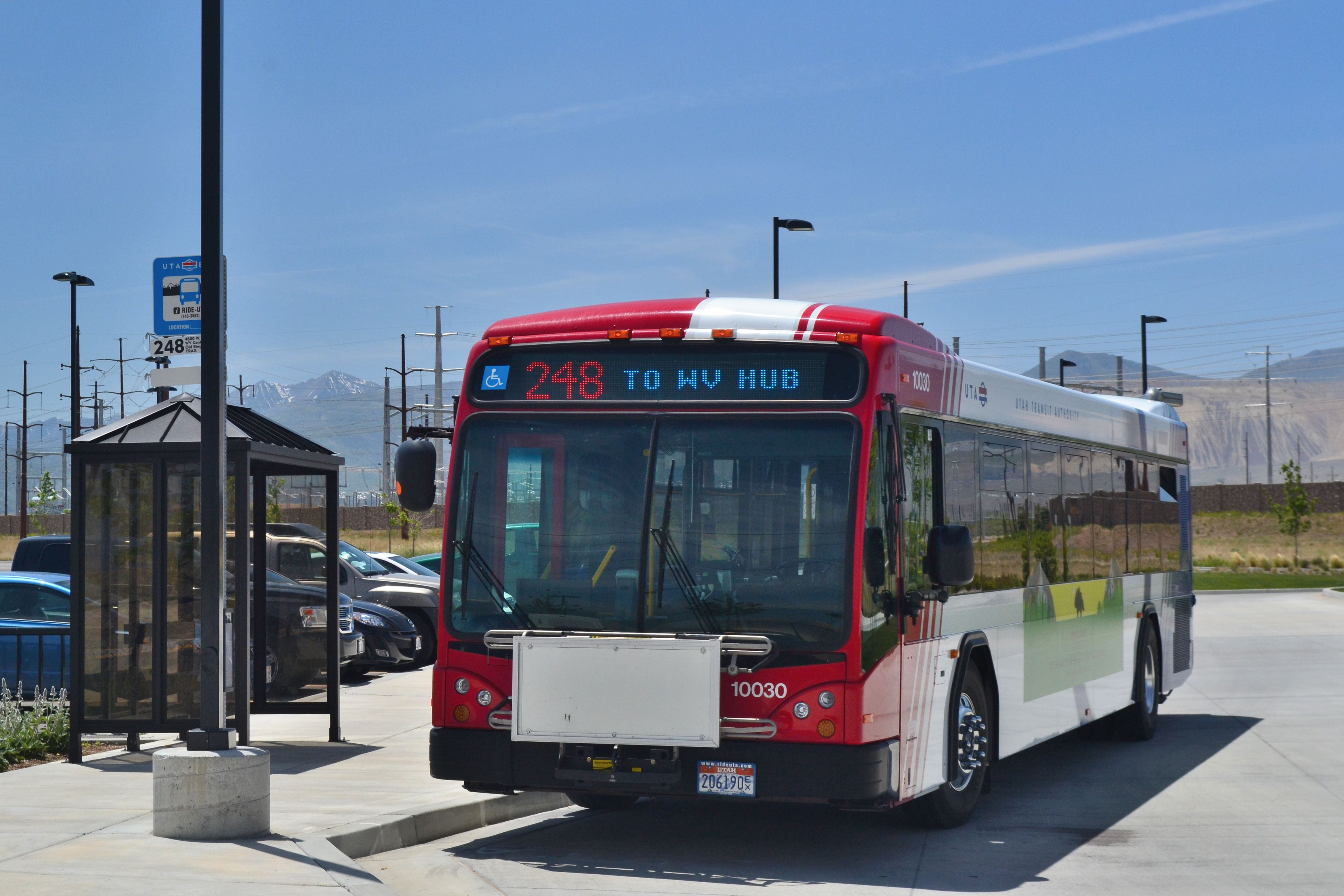 Another look at bus 10030, a 2010 Gillig BRT on route 248. It's just ended its run from the Green Line station in West Valley to the 5600 West station on the Red Line in South Jordan. The UTA has been ordering Gilligs since 1995, starting with the Phantom (with successive orders in 1996 and 1997). The low-floor era began in 1999, with Advantages being introduced into the fleet. Following another order of Advantages in 2001, BRTs entered the fleet in 2006, followed by more orders in 2007, 2009, 2010, 2011, and 2012. There have been a few non-Gillig buses introduced to the fleet since 1995. Articulated New Flyers were ordered in 1998, but those were sold off several years ago. Three hybrid New Flyers entered service in 2002, and those still see limited use. Thirty-foot Optima Opus buses were ordered in 2005 and 2006. Finally, fourteen Van Hool A300s entered service for use in bus rapid transit lines in 2008 and 2009. The UTA aims to introduce 101 new CNG buses in three years. I don't know which manufacturer the UTA plans to use; does Gillig even make CNG buses? Several sixty-foot articulated bus rapid transit buses will also be ordered soon. The 5600 West TRAX station lies in the western periphery of the Salt Lake Valley. Directly north of the South Jordan Parkway station, things here are almost as desolate as at that station. However, a bus does serve this station (the 248), unlike at South Jordan Parkway.